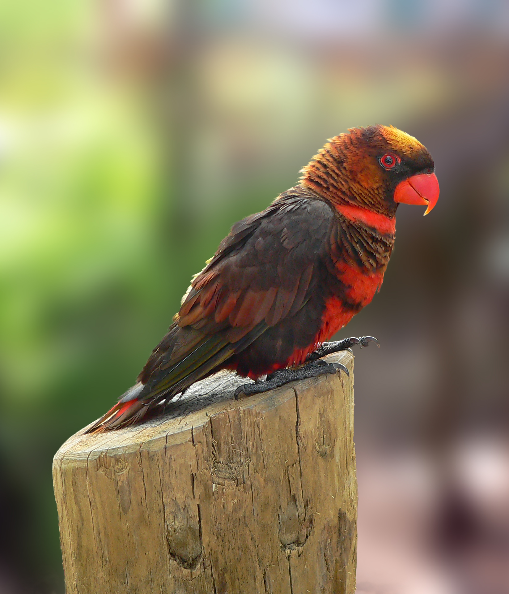 Dusky Lory at the Cincinnati Zoo.